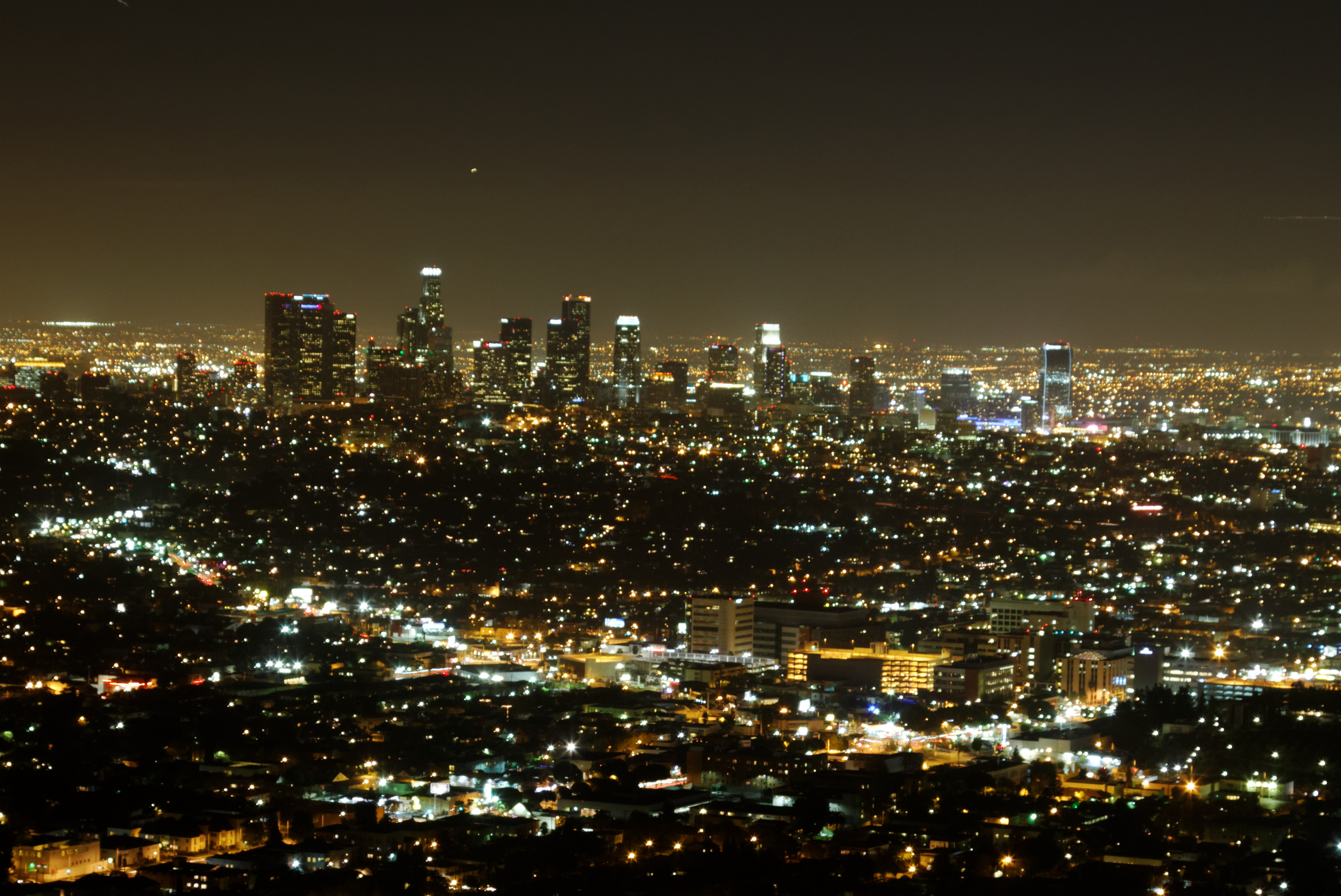 Los Angeles from Griffith Observatory